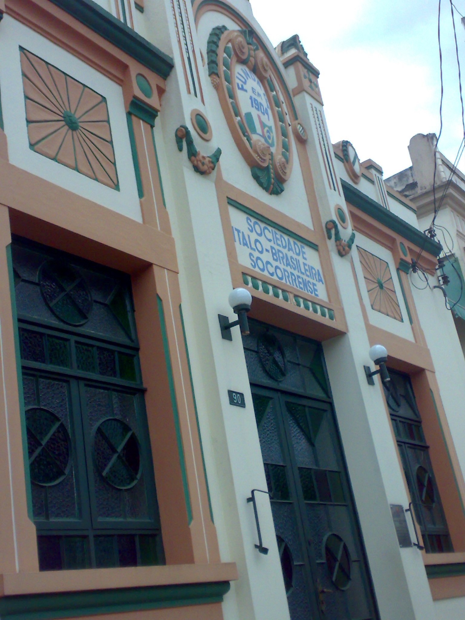 Facade of the Italian Cultural Center